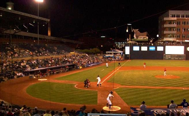 Durham Bulls Athletic Park, Durham, NC